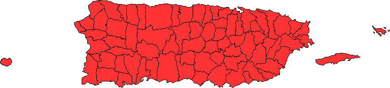 Puerto Rican general election, 1956 and 1964 map.